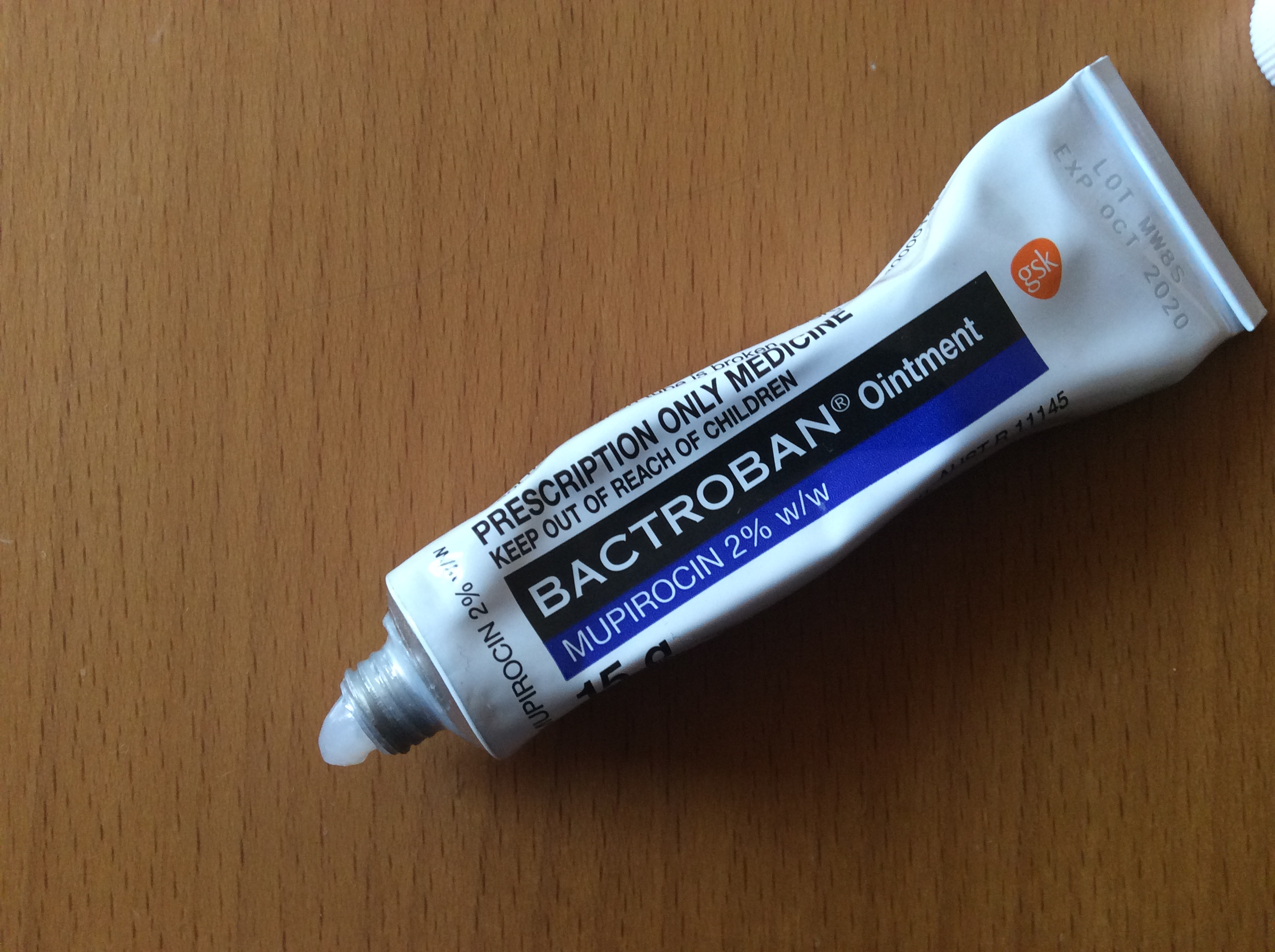 This is a tube of Bactroban, the medicine is white.